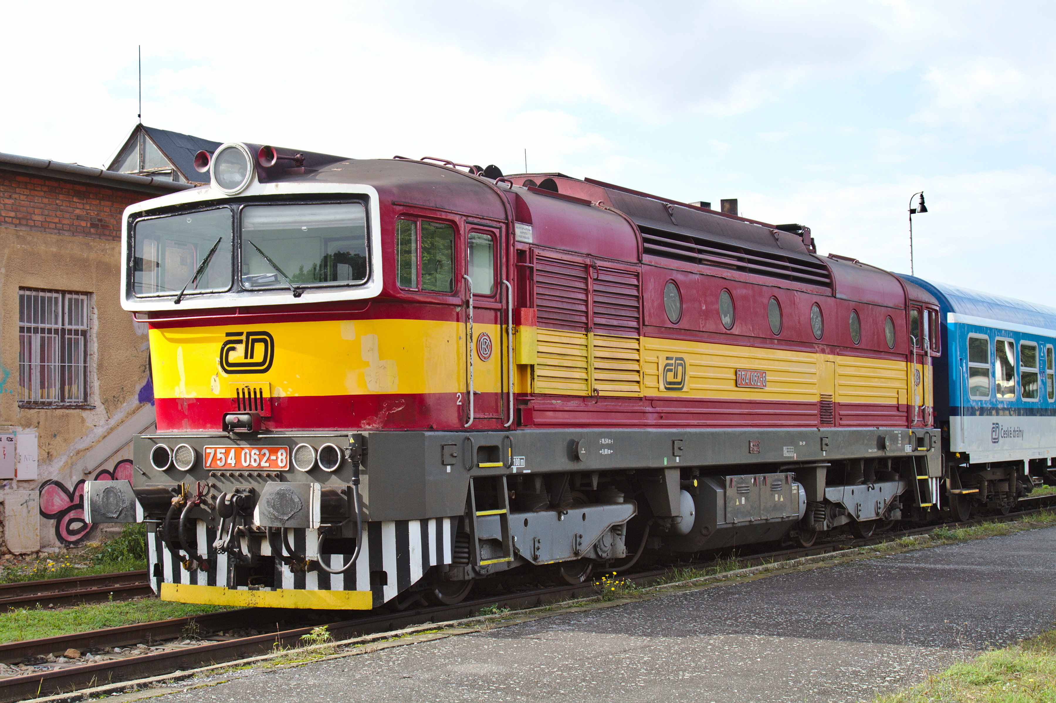 ČD 754 062 at Mikulov station.